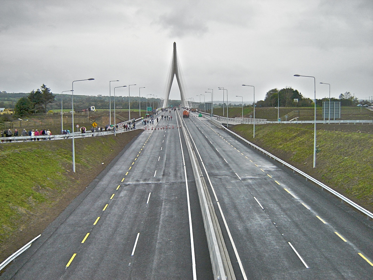 I lightened the image